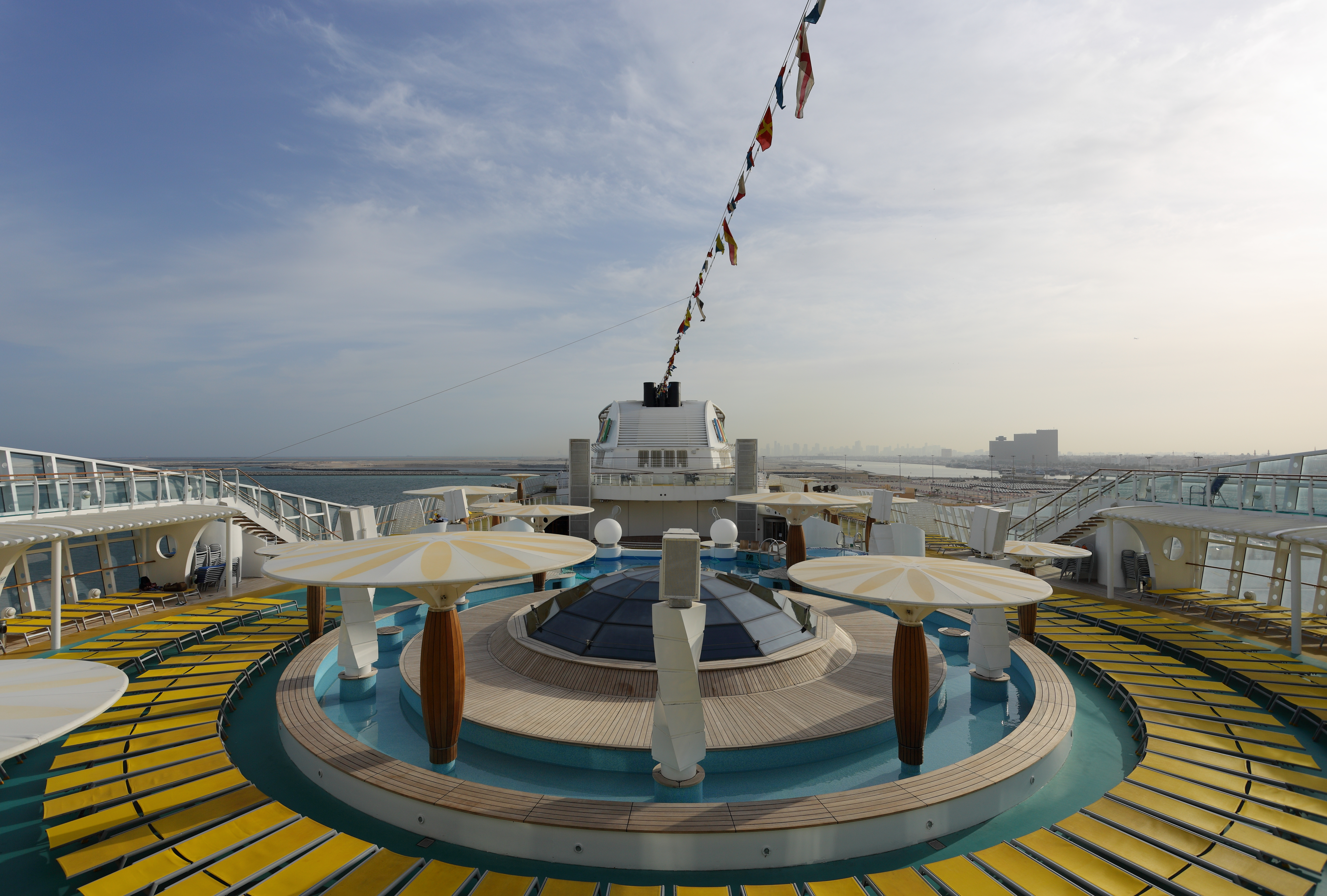 Pool Deck of AIDAdiva in Dubai, March 2015